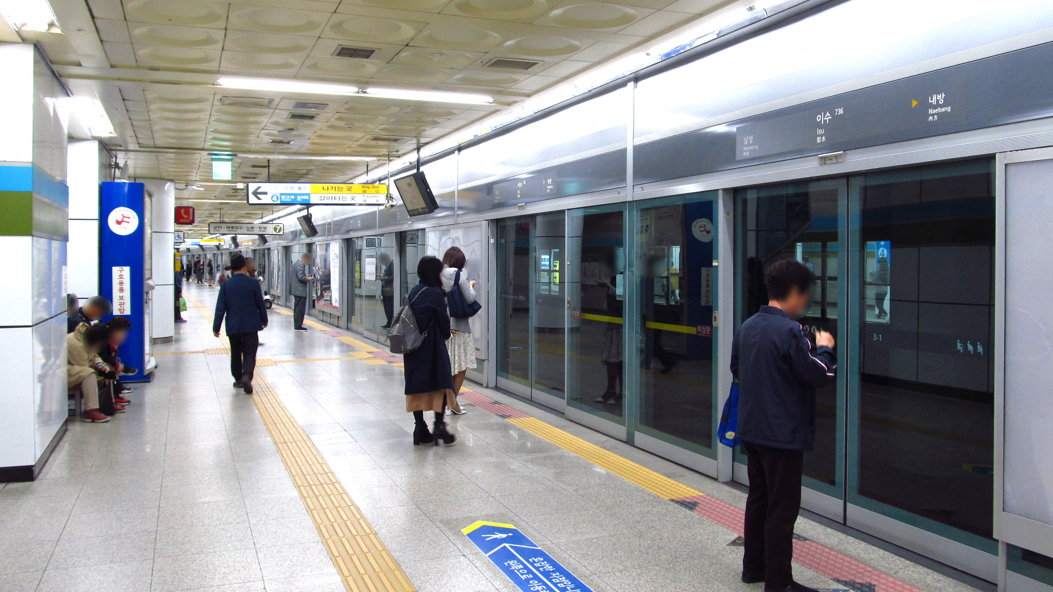 The Jangam-bound platform at Isu Station on Seoul Subway Line 7 in Dongjak-gu, Seoul, Republic of Korea(South Korea)